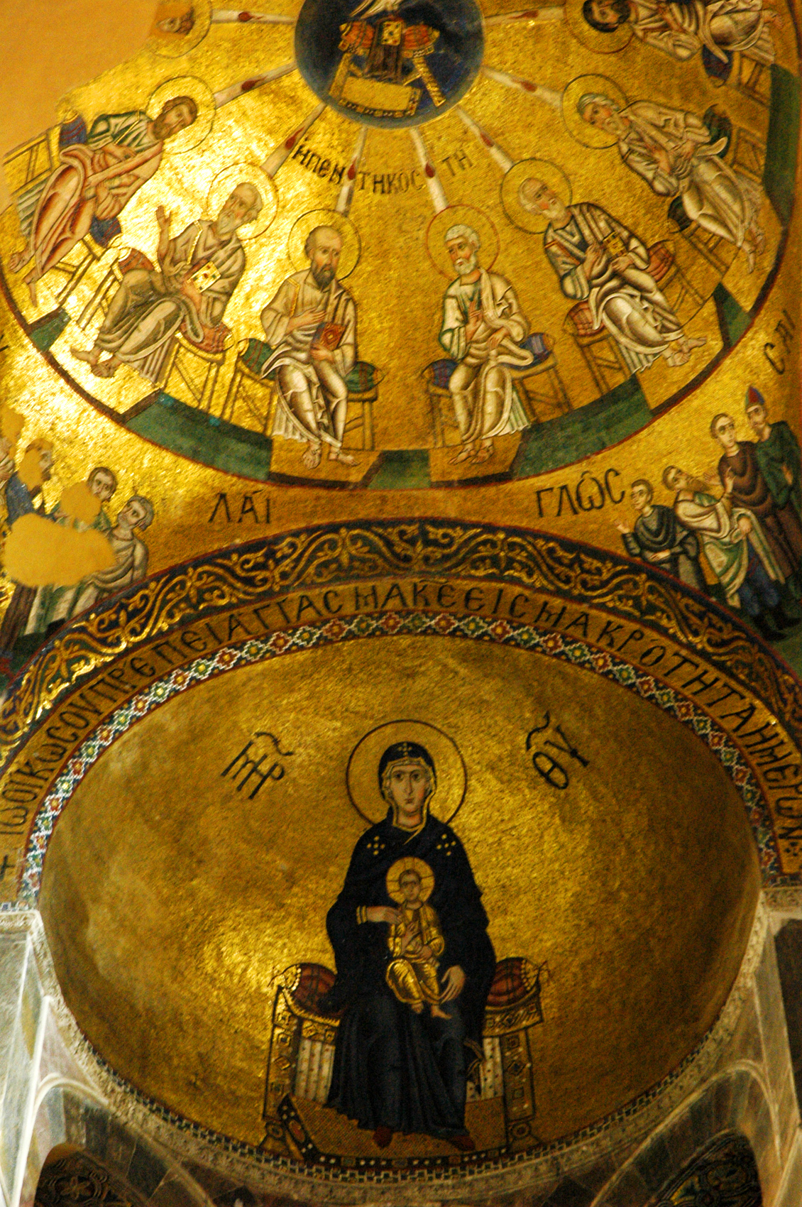 Mosaics from Hosios Lukas Monastery (11th century), Greece